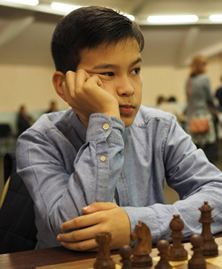 Nodirbek Abdusattorov in 2017 year